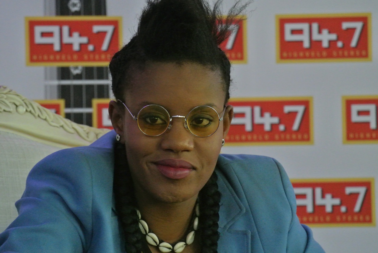 South African pop star Toya Delazy, known for her hits such as "Pump It On" -- opened up for Adam Lambert and will also be opening up for Daniel Bedingfield when he performs in Johannesburg on 2 Dec.